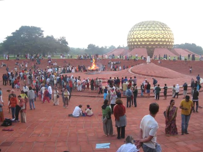 Aurovilians front of Matrimandir during the 46 th birthday of Auroville